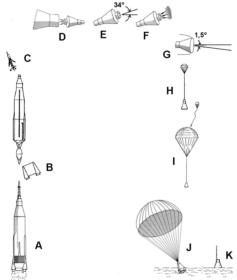 Normal Mercury Atlas mission sequence